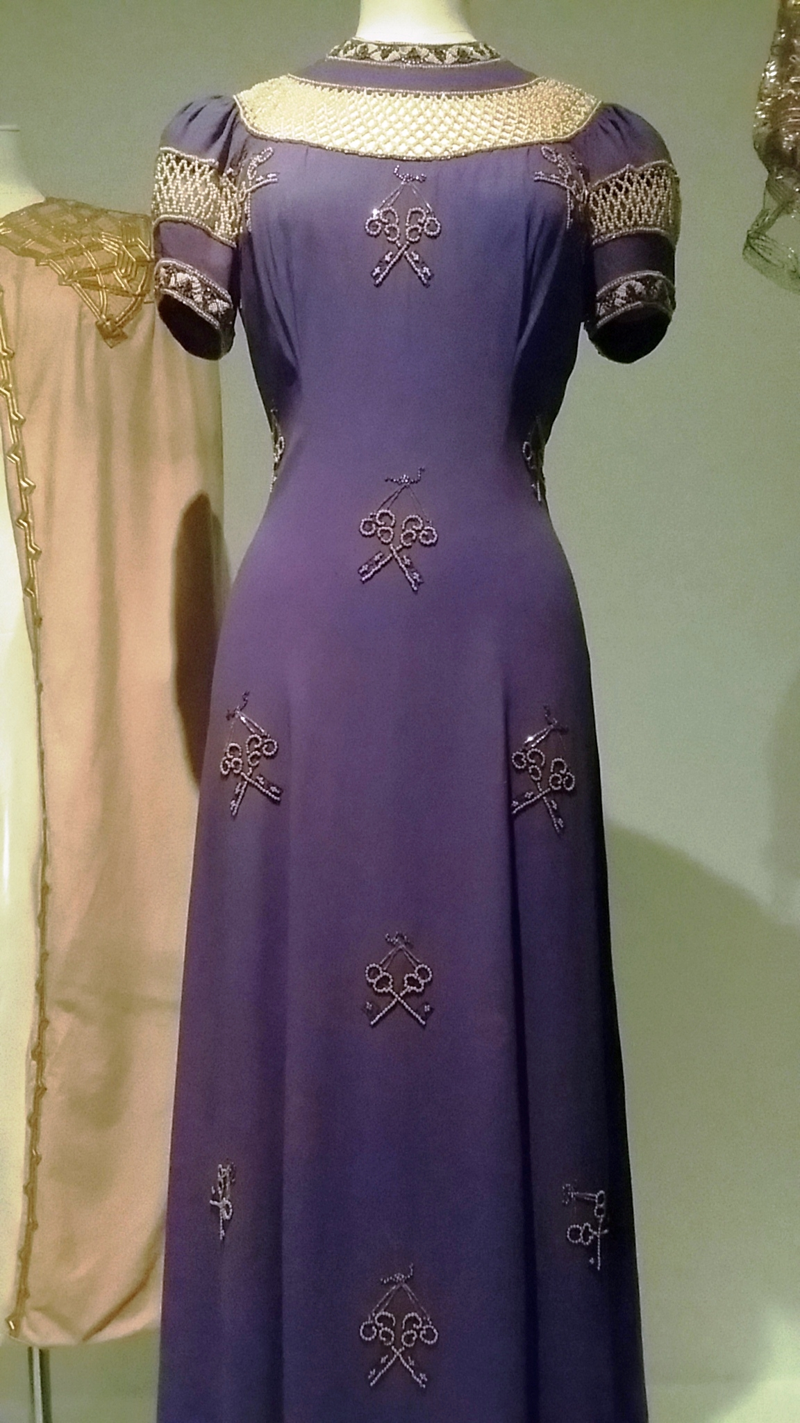 Evening dress embroidered with key motif reportedly inspired by a painting in the National Gallery according to label in museum.